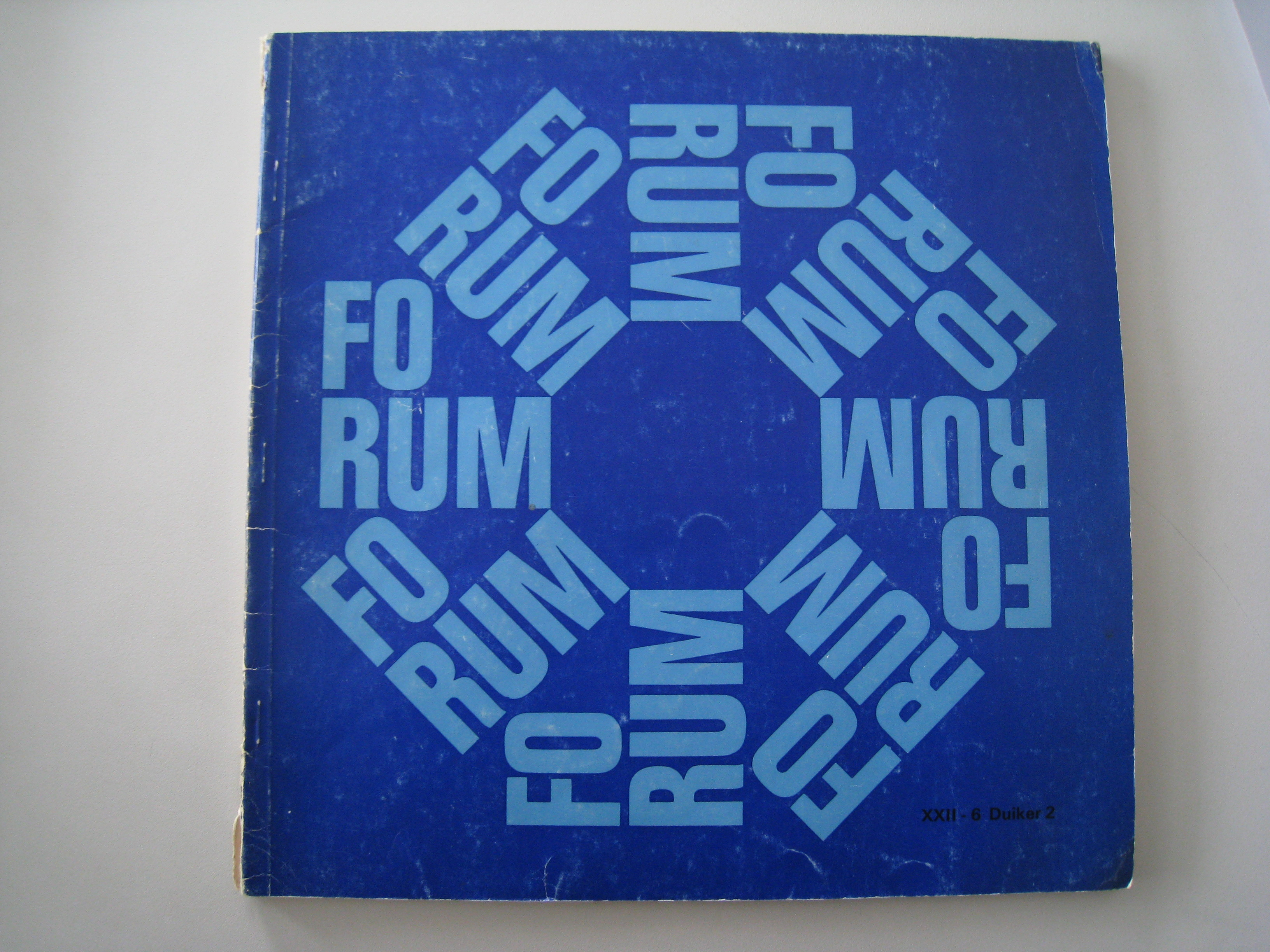 Forum